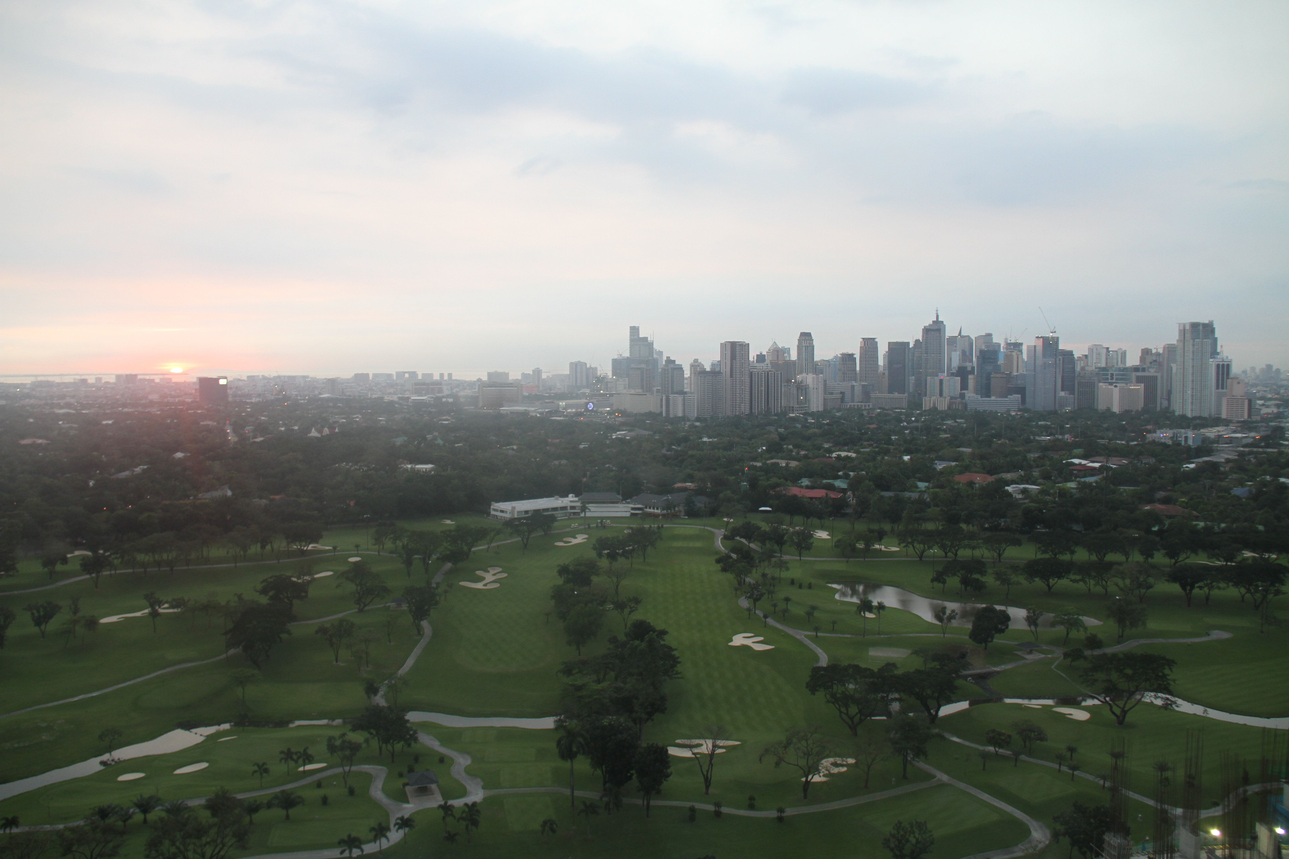 Makati City with the Manila Golf Club in the foreground during sunset.Tagalog: Ang Lungsod ng Makati at ang Manila Golf Club sa takipsilim.